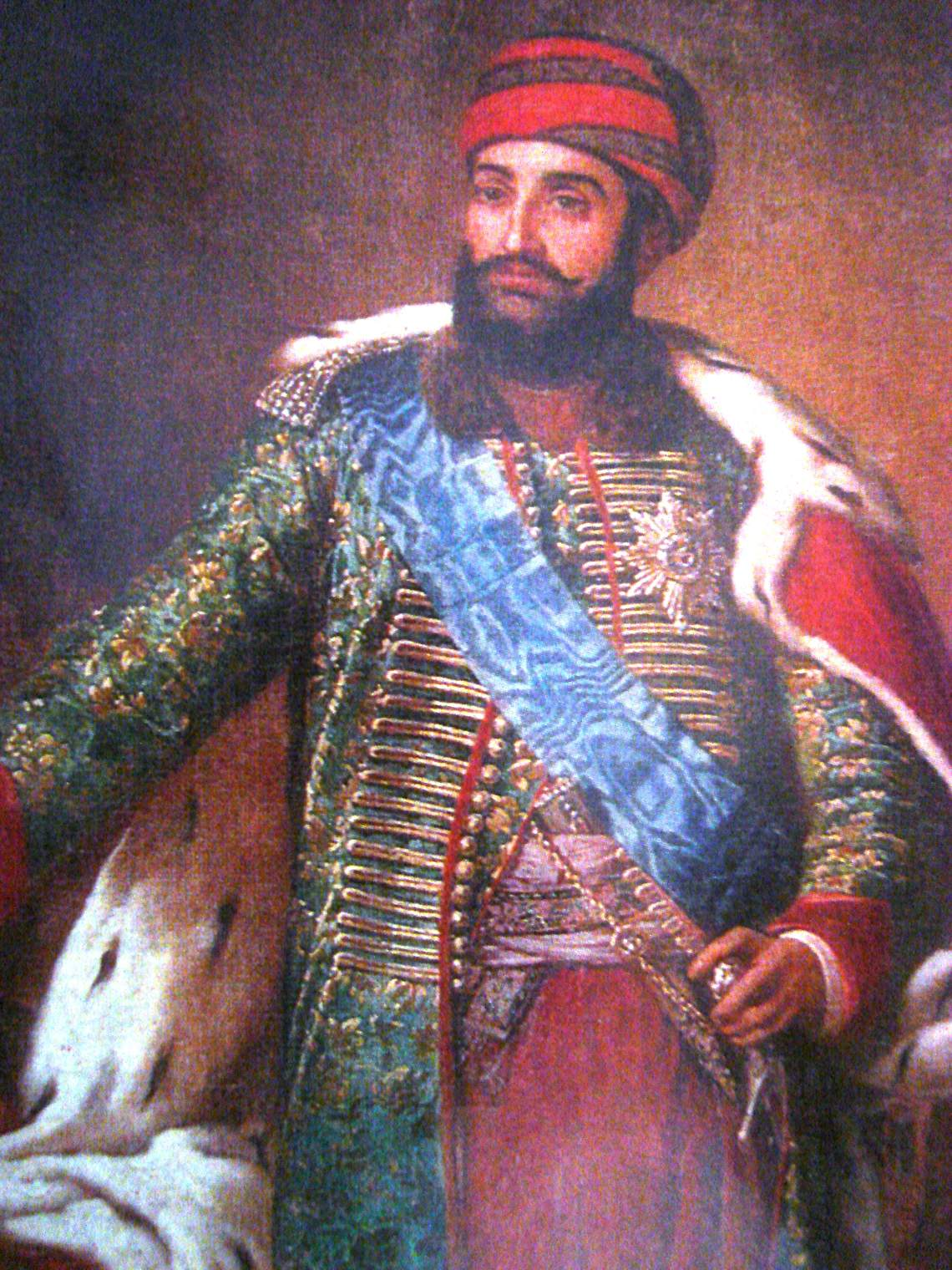 King Erekle II of Kartli-Kakheti (current Georgia) (1720-1798)